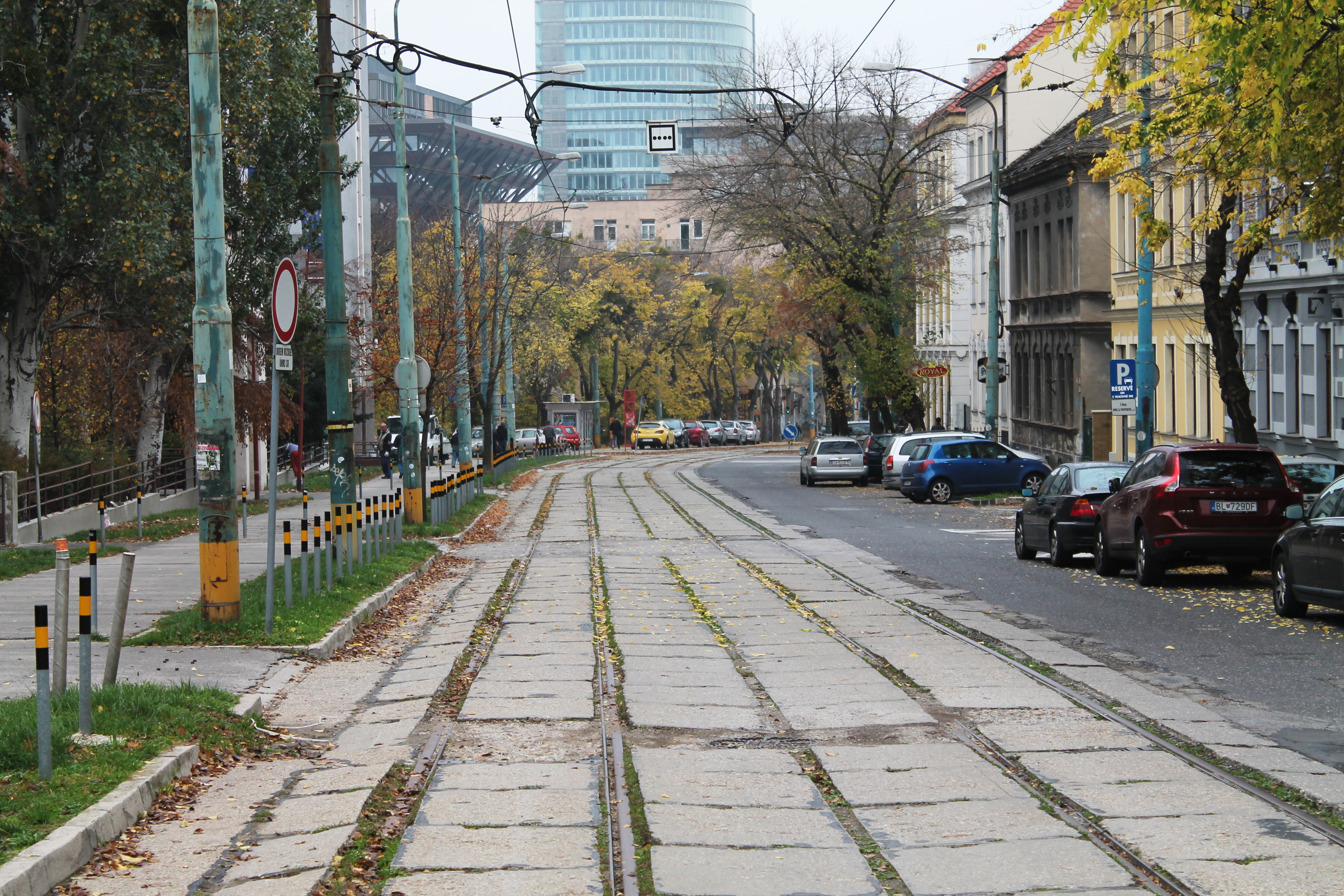 Tram track at Štefaničova street, Bratislava, Slovakia - Google Maps - Google Earth